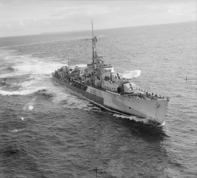 Aerial photograph of British C class destroyer HMS Cambrian.